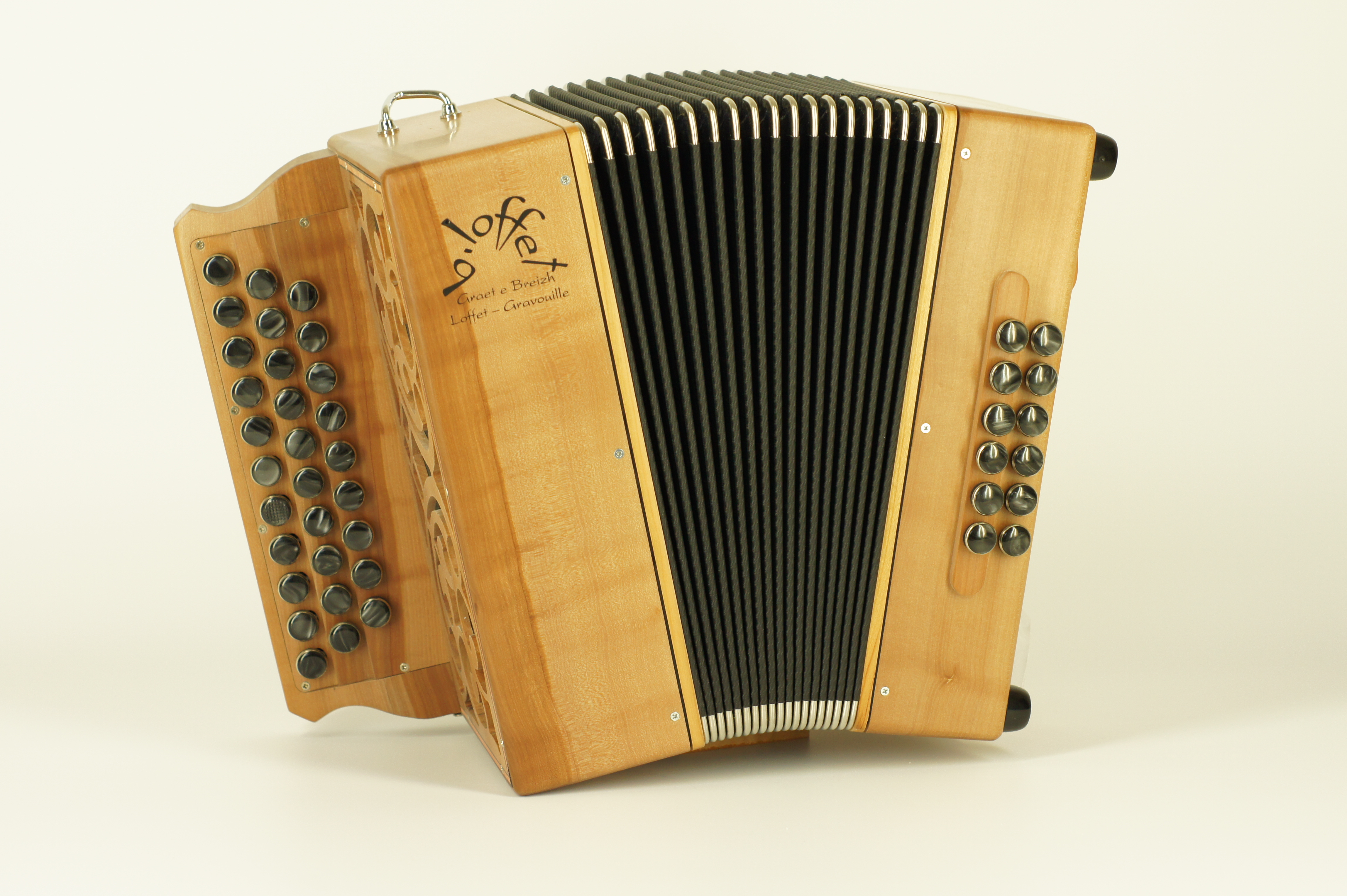 Diatonic button accordion made by B. Loffet, "Graet e Breizh" range, 3 rows, 12 basses